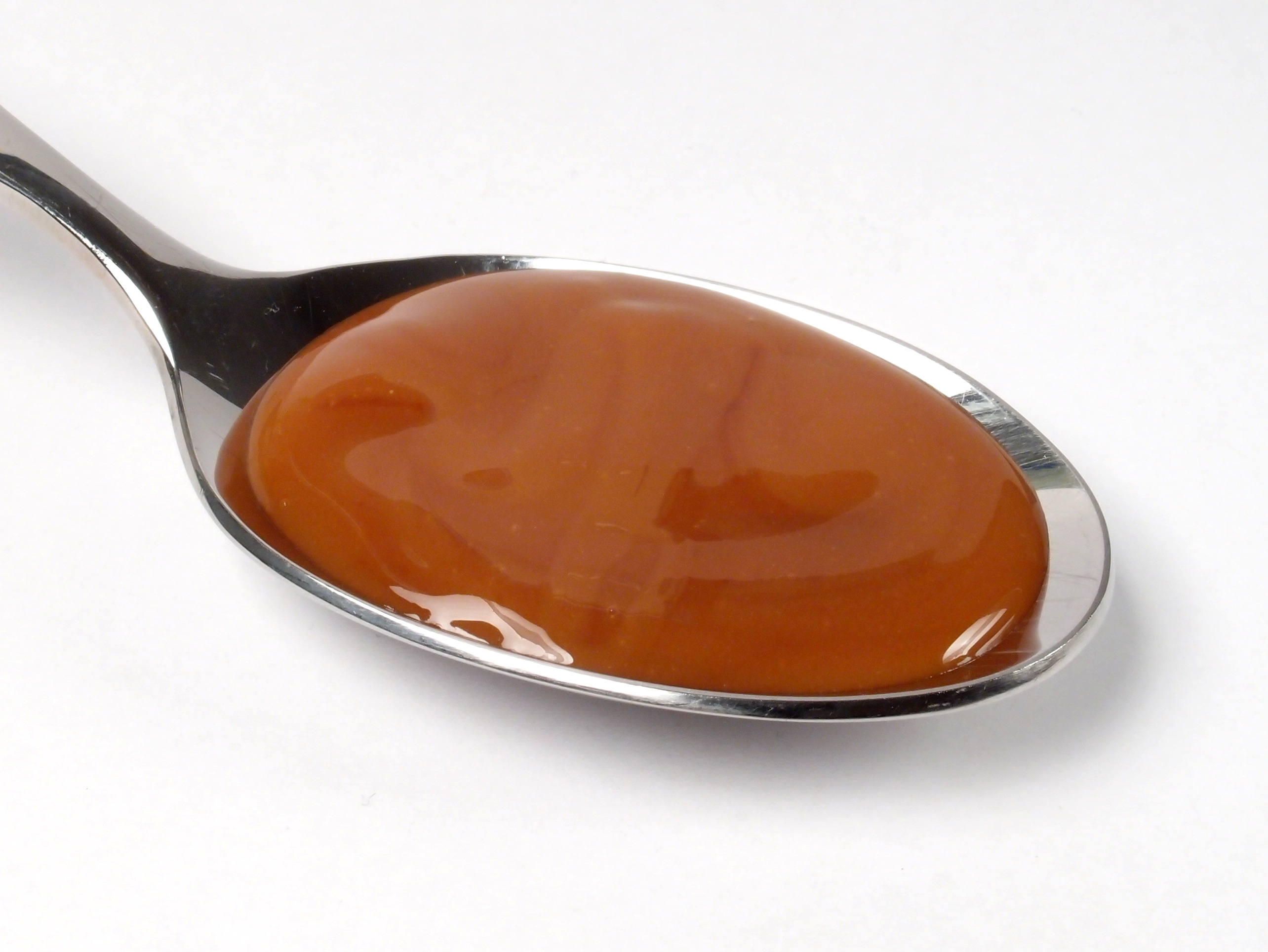 Viscous yeast extract on a spoon